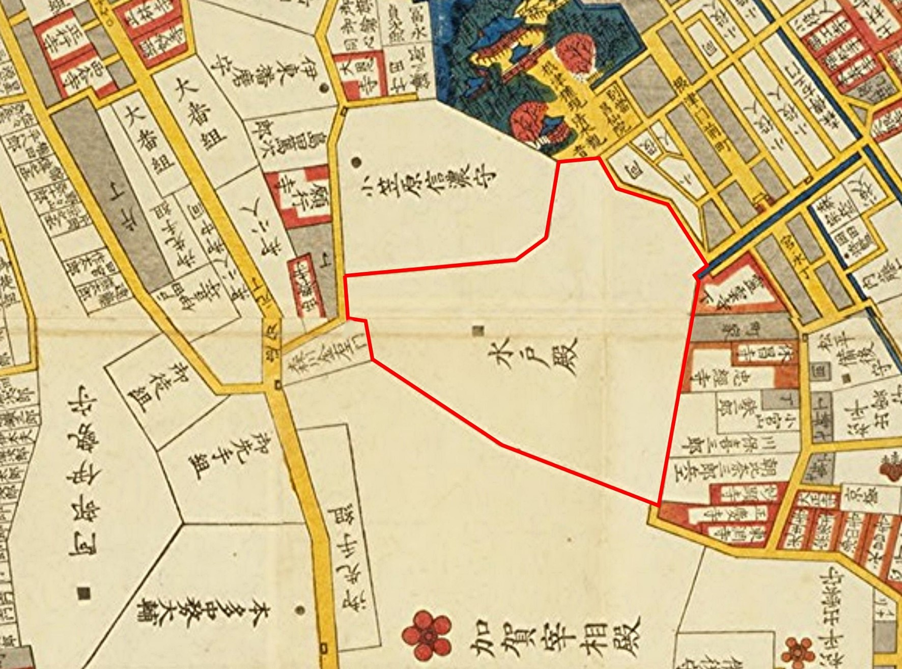 Side residence of Mito clan at Edo (Hongo)